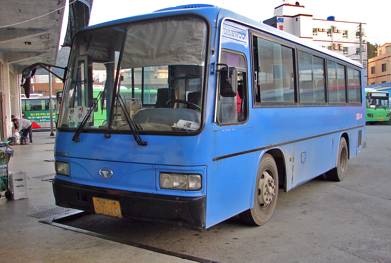 Old Daewoo BM090 Royal Midi still on service on Wando (island)